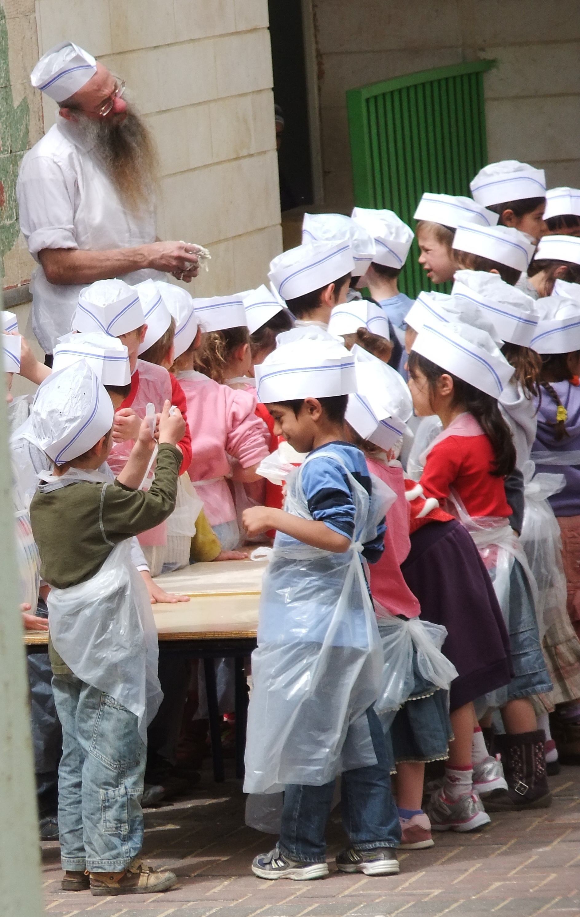 Children in kindergarden in Ofra preparing Matza